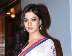 Sara Loren at the launch of Manish Arora's store 'Indian' at Juhu, Mumbai